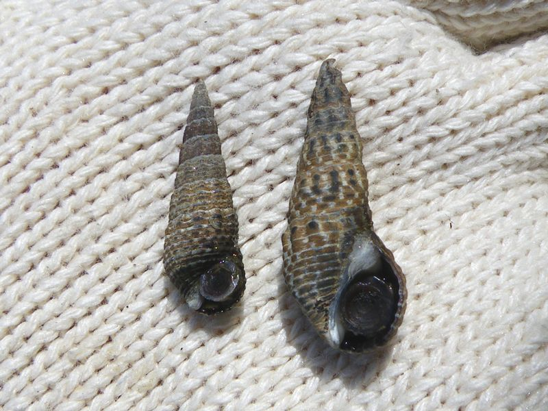 Left : Batillaria cumingii (Crosse,1862) / Right : Batillaria multiformis (Lischke, 1869)